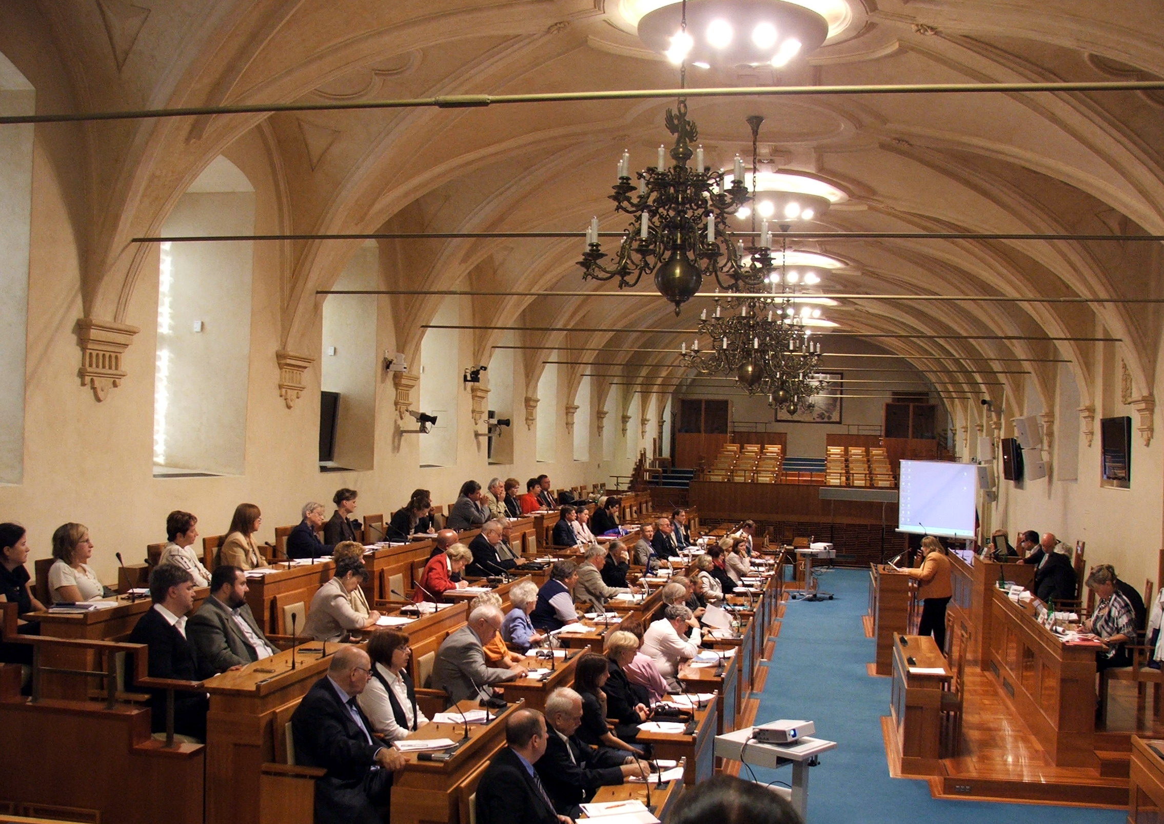 Wallenstein Palace - seat of Senate of Parliament of the Czech Republic in Prague - Malá Strana. Main Hall of Senate.